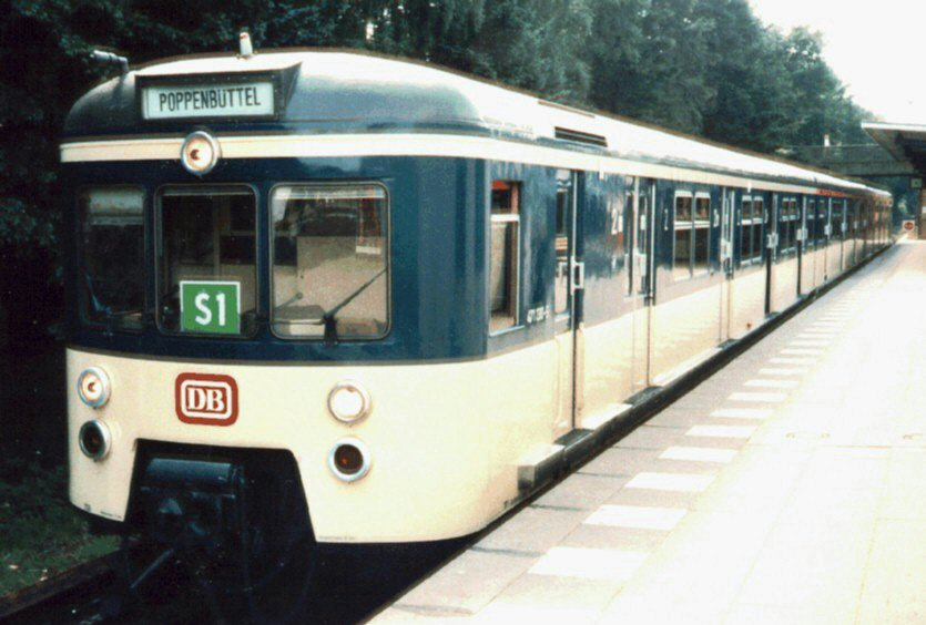 Modernized electric unit 471 130-5 of S-Bahn Hamburg in Poppenbüttel station